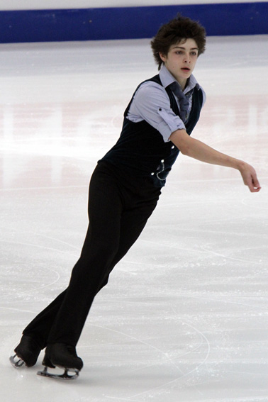 Brendan Kerry at the 2011 Four Continents Championships.